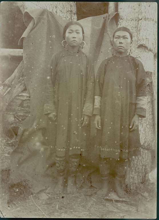 Nivkh (gilyak) girls.